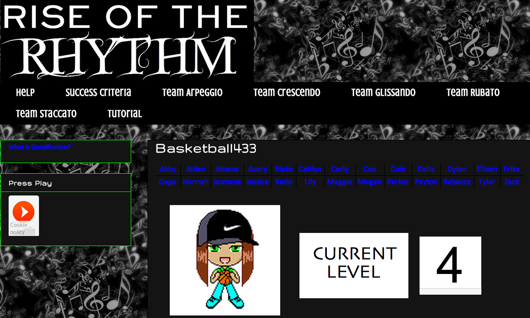 This is a screenshot of the gamified music learning platform, Rise of the Rhythm. It depicts a player's avatar and game name, as well as indicates the level in the game she has reached by mastering musical pieces on the recorder. The screenshot also depicts the names of all the teams competing in the game, and lists all the members of the team, "Team Staccato."